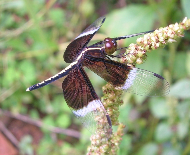 Neurothemis tullia Pied Paddy Skipper dragonfly, Wayanad, India